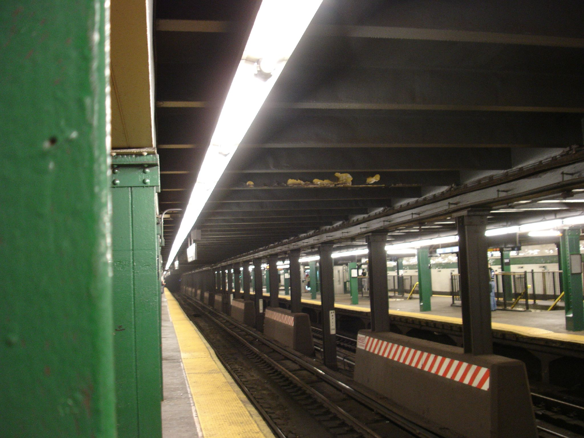 Upper Level of West Fourth Street – Washington Square station on the IND Eighth Avenue Line of the New York City Subway.